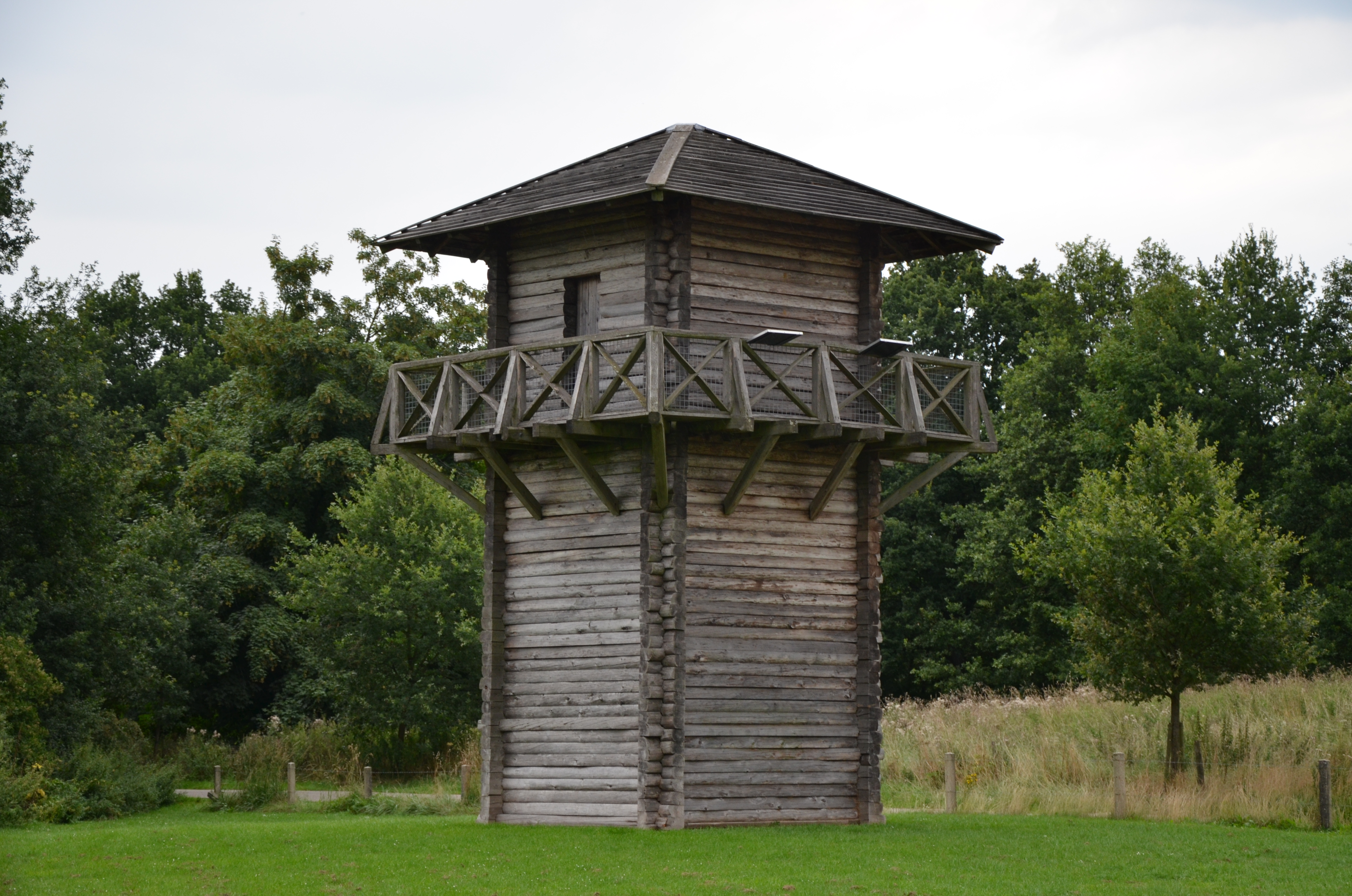 The Fectio watchtower - photo below - was built in 2004 to remind visitors that Vechten once was an important military settlement. It was made out of wood and has three levels. The upper level probably served as armory; from the balcony, fire and smoke signals could be given to nearby forts (e.g., Traiectum in the northwest or Levefanum in the southeast). The middle level was used as a sleeping room and contained the entrance; and downstairs was a cellar. These towers were situated on the southern bank of the Rhine; several have been identified west of Utrecht, at Utrecht-Leidse Rijn (formerly known as Vleuten). Similar constructions have been excavated in Germany (e.g., Rainau).